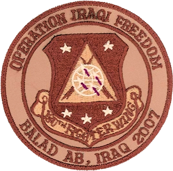 180th Fighter Wing Operation Iraqi Freedom 2007